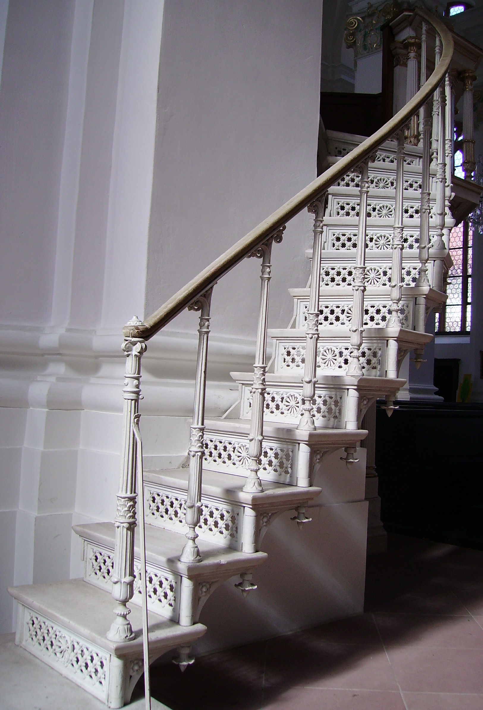 views of Heidelberg, Germany